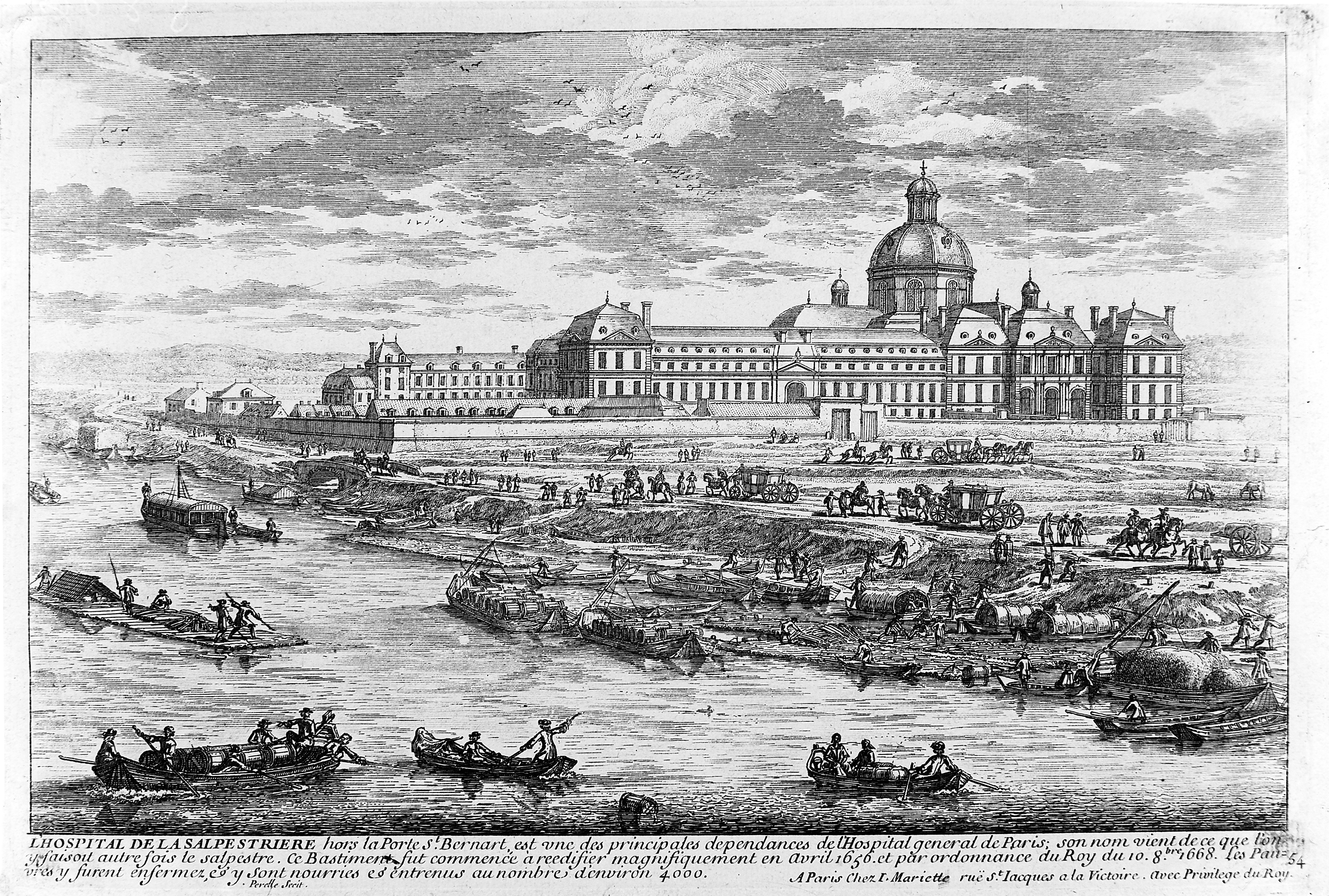 Hôpital de la Salpêtrière, Paris: as seen from the river. Line engraving by Perelle. Iconographic Collections Keywords: Adam Perelle; Hôpital Salpêtrière (Paris, France)